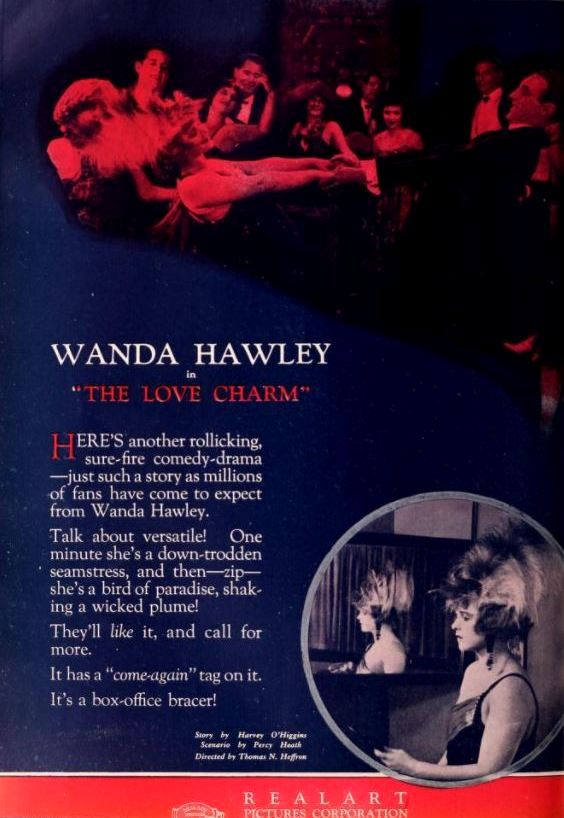 Advertisement for the American comedy film The Love Charm (1921) with Wanda Hawley, from the insert after page 2 of the November 26, 1921 Exhibitors Herald.